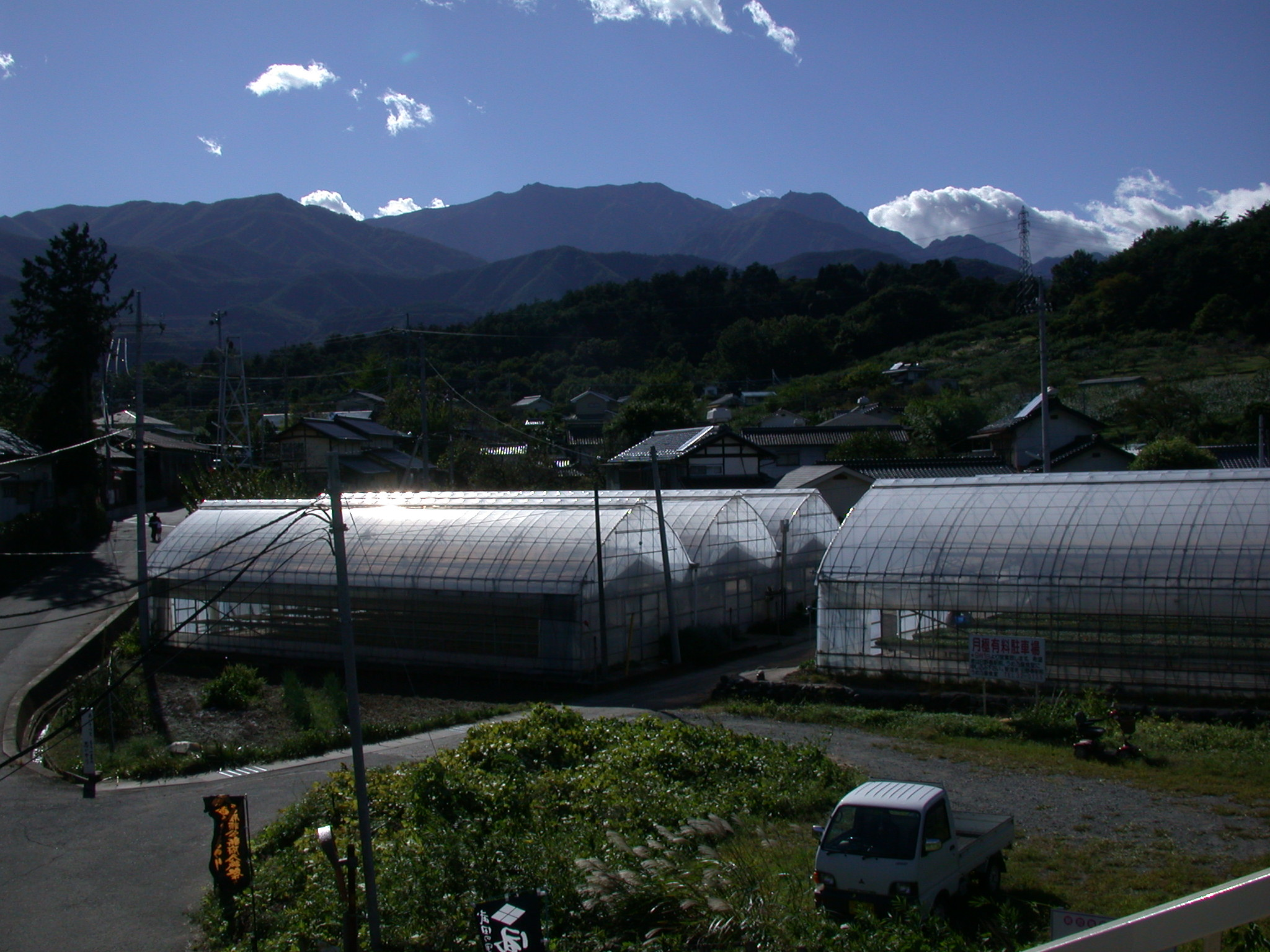 Shinpu Castle